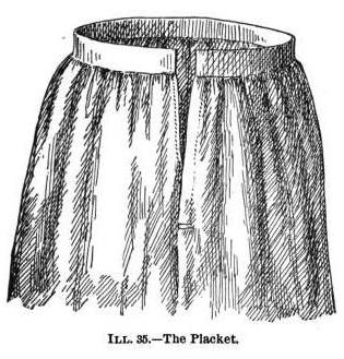 Illustration of a placket, or opening, made in the upper part of a petticoat or skirt for convenience in putting it on.